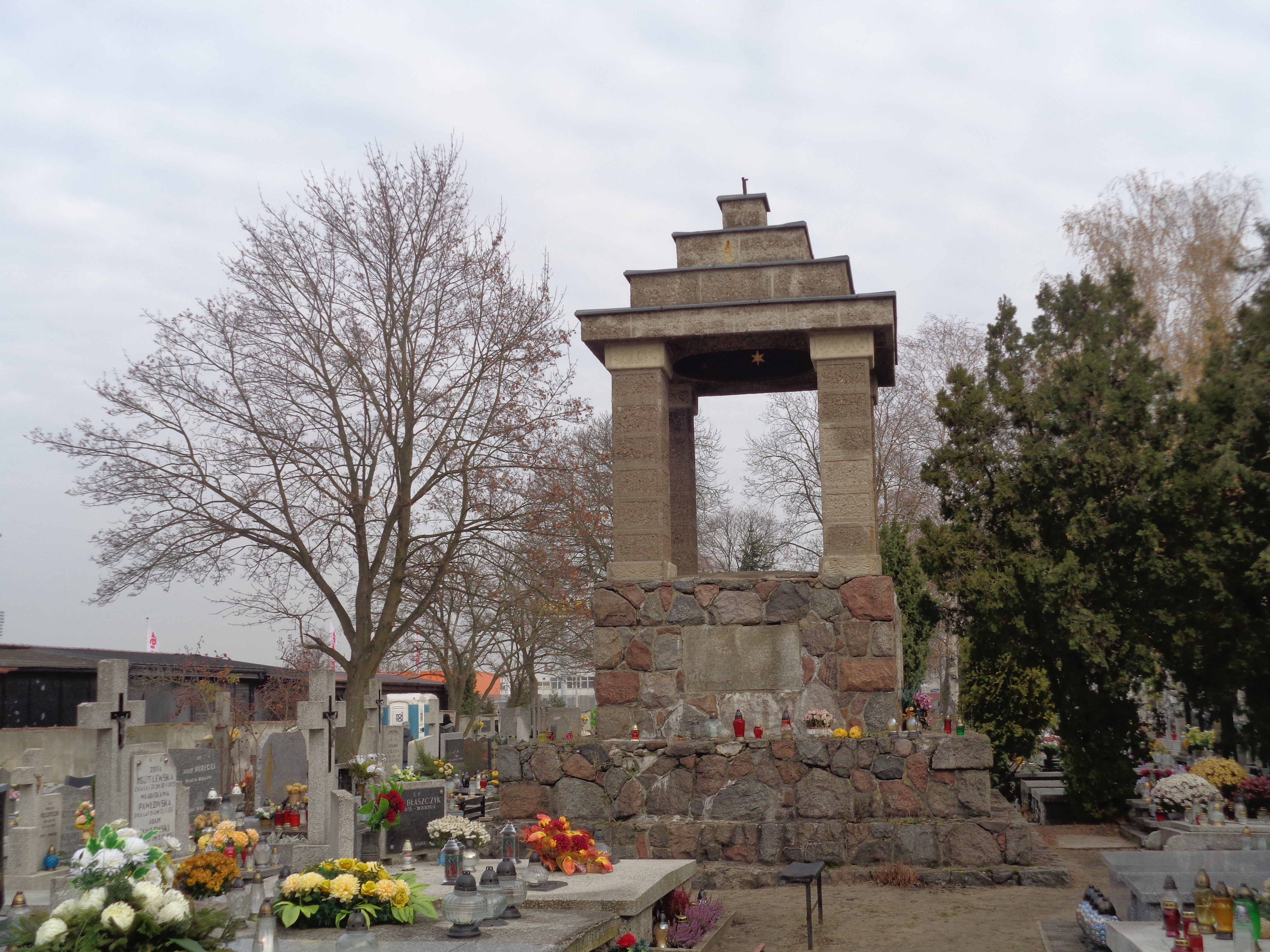 Mausoleum of German soliders on common cemetery in Włocławek.